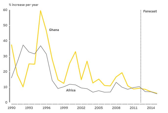 Chart of the Ghanaian economy's Inflation Rate